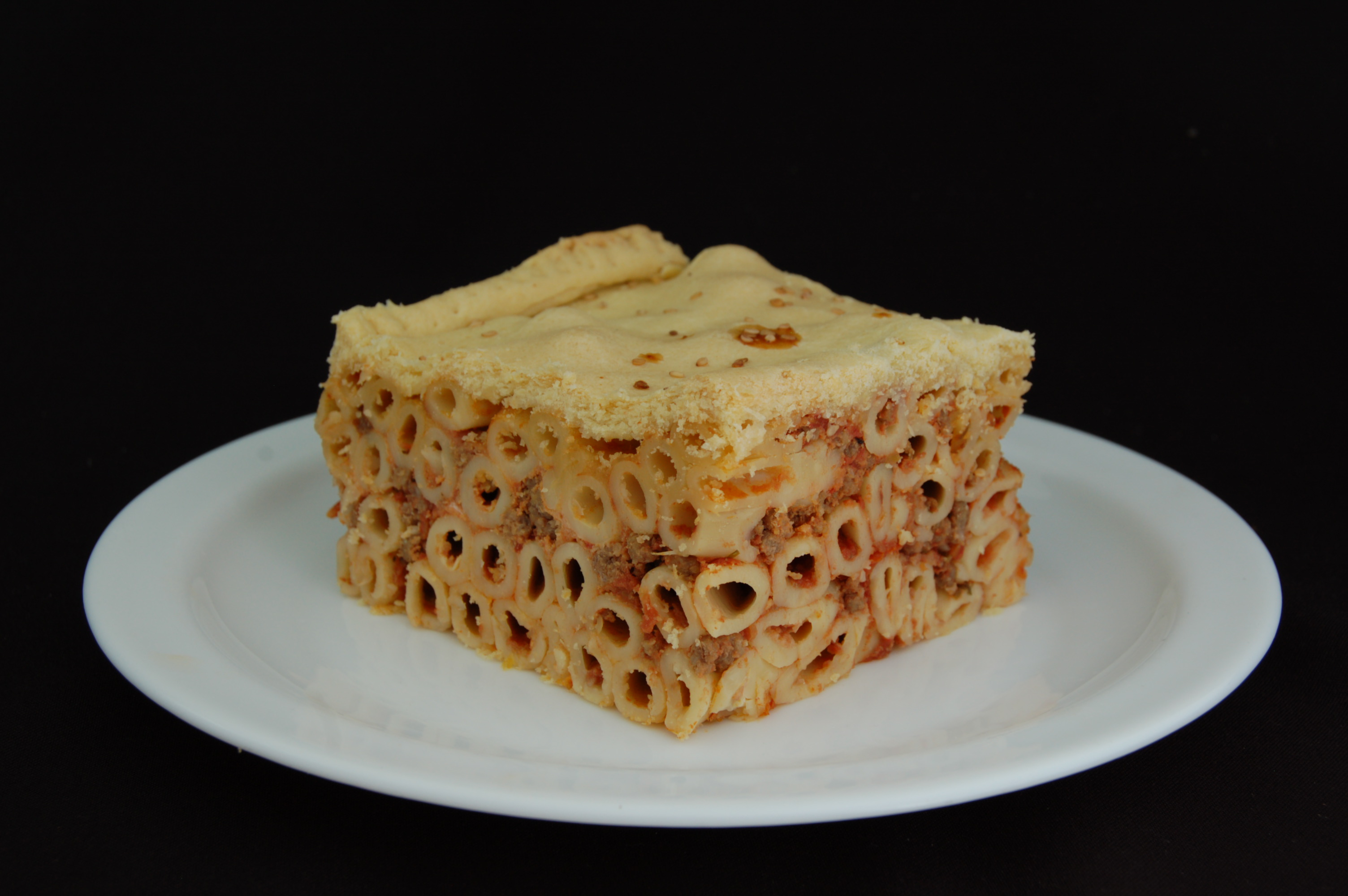 Maltese baked macaroni with shortcrust cover. Malti: Timpana.